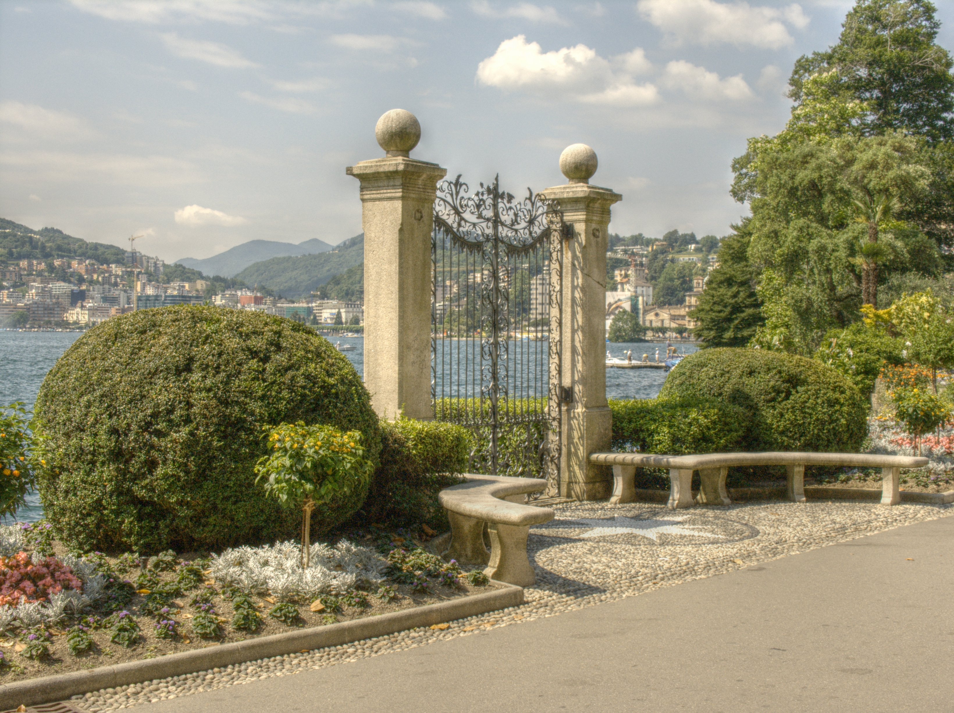 Lugano, Tessin, Switzerland - A view of Ciani park